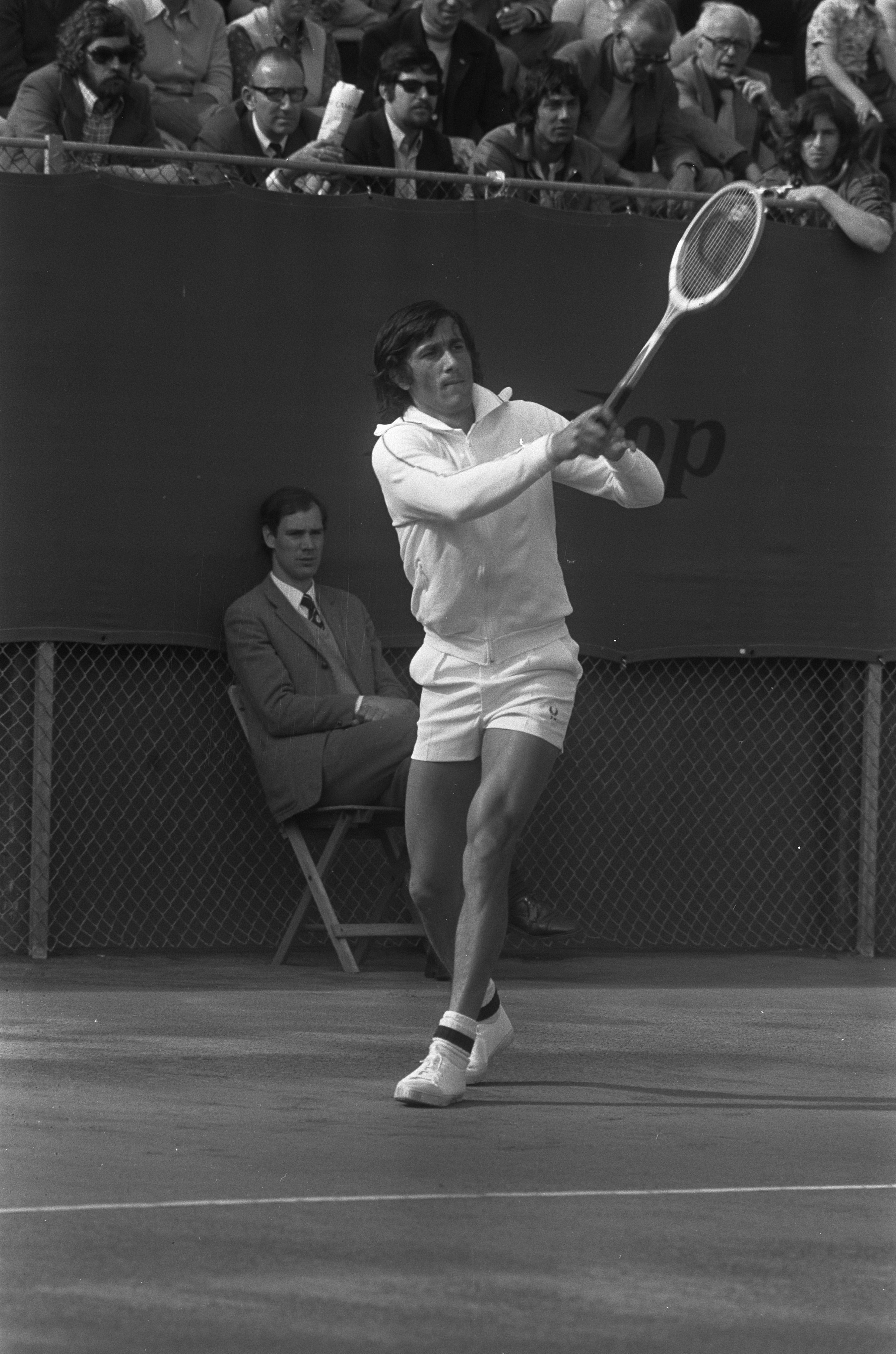 Romanian tennis player Ilie Năstase playing a Davis Cup match for his country against The Netherlands in The Hague, Netherlands (1973)